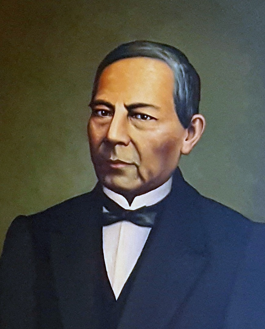 Portrait of Benito Juárez by Salvador Martínez Báez